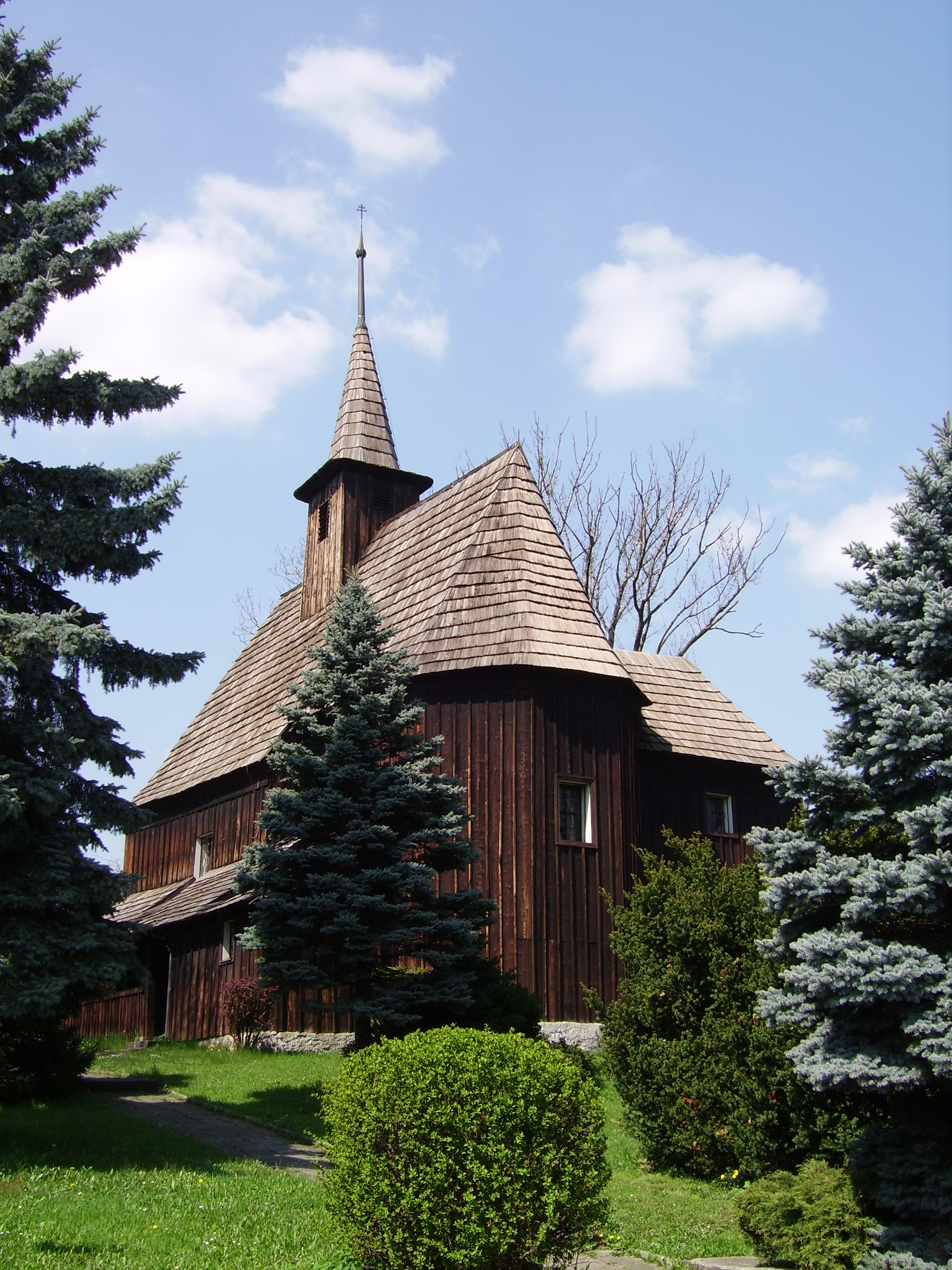 Wooden church of St Andrew from 1550s in Hodslavice, Nový Jičín District, Czech Republic.